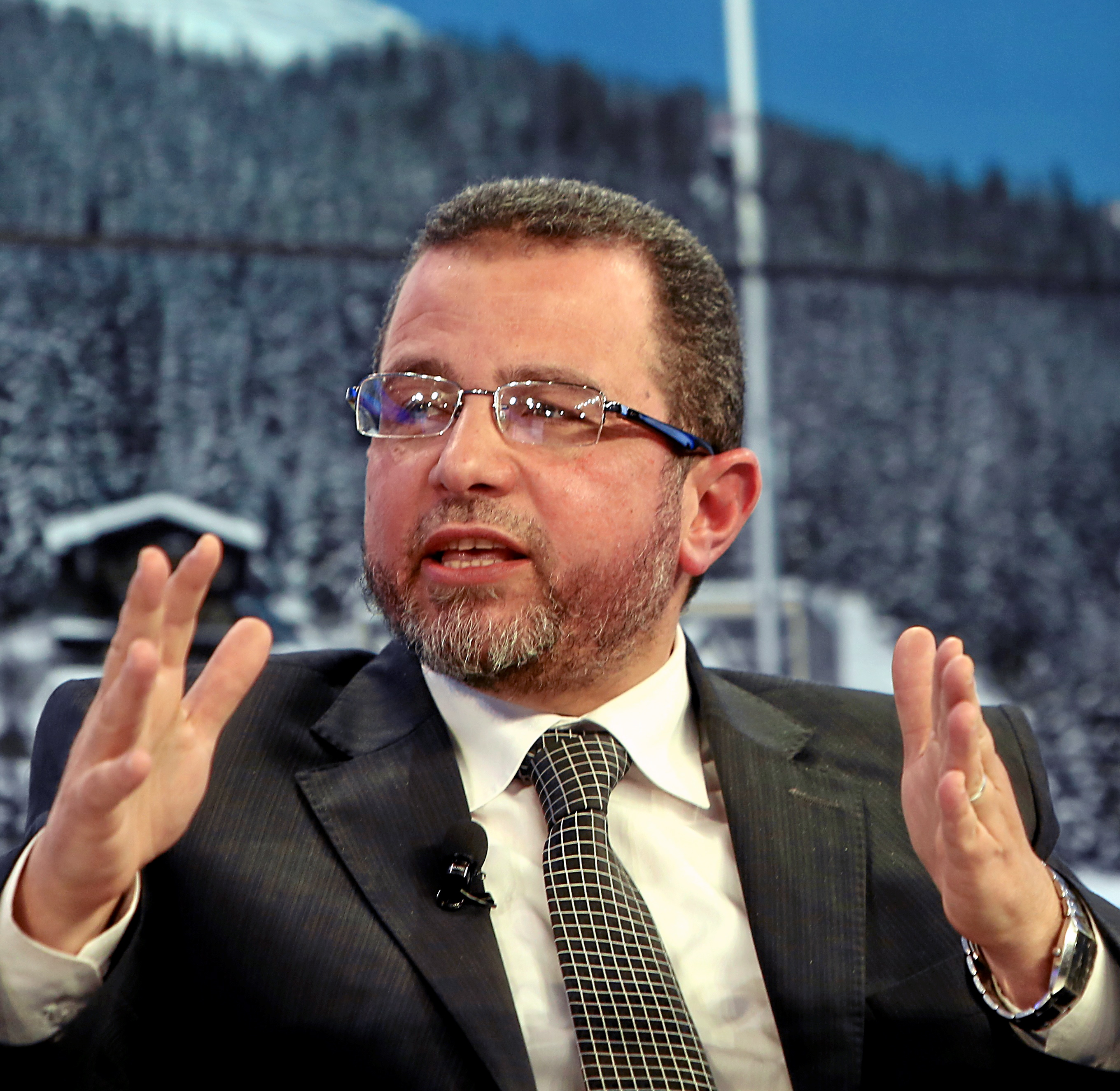 DAVOS/SWITZERLAND, 25JAN13 - Hesham Mohamed Qandil, Prime Minister of Egypt, gestures on the panel during the session 'Transformations in the Arab World' at the Annual Meeting 2013 of the World Economic Forum in Davos, Switzerland, January 25, 2013. . . Copyright by World Economic Forum. . Monika Flueckiger